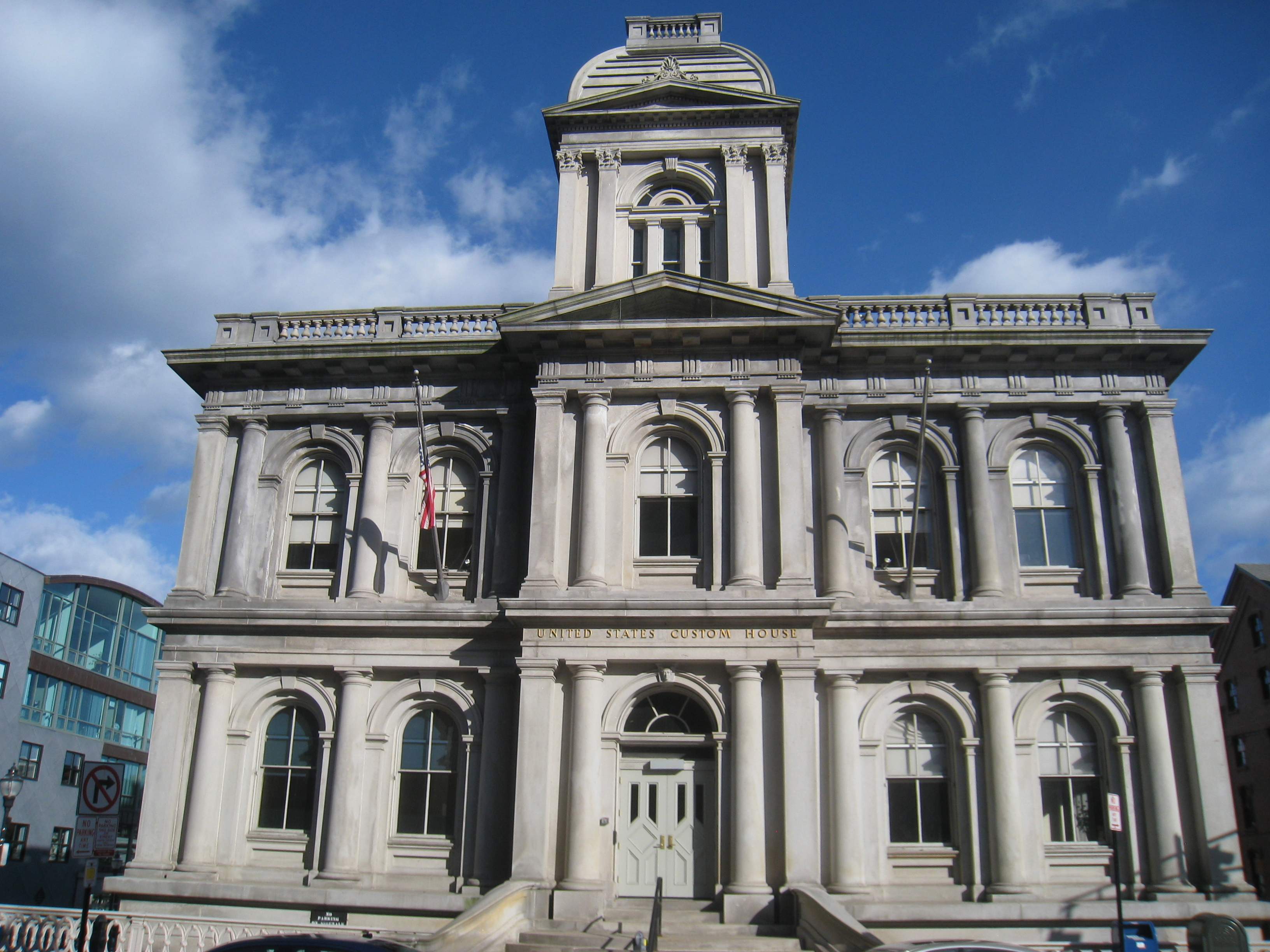 United States Custom House, Portland, Maine, USA.